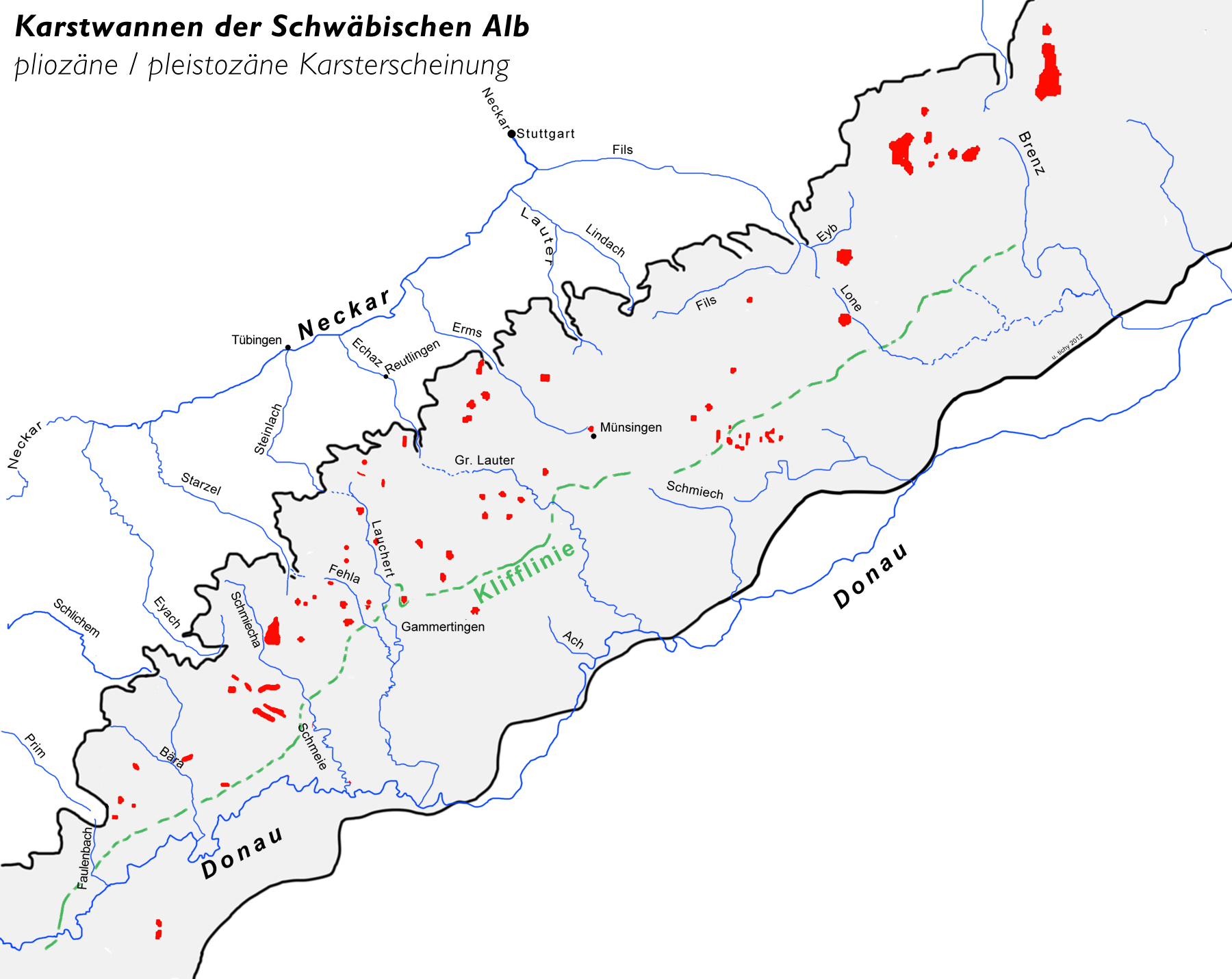 Karstwannen (German) should be destinguished from sinkholes and poljes, structural basins or plains. These kind of closed depressions rather resemble an "uvala". Swabian Jura has Karstwannen up to 4 to 2,5km in size with up to 100 Dolines (small sinkholes). Karstwannen developed in late Pliocene and Pleistocene, when karstification progressed. Most Karstwannen developed in the northern part of the Alb.